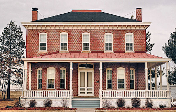 Former U.S. Army Residnce of General John J. Pershing at Warren AFB Wyoming